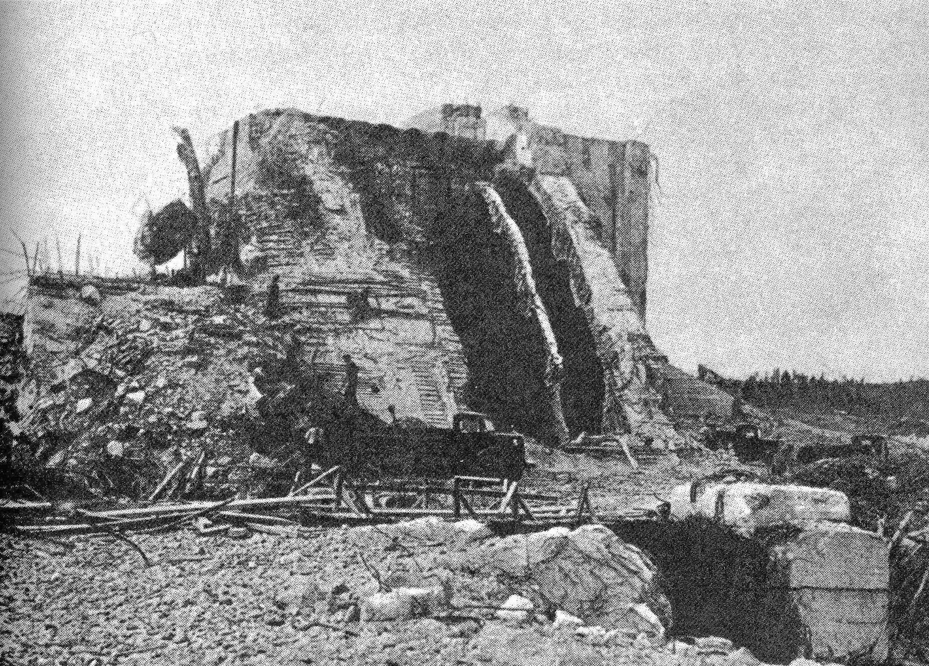 Detroyed Jäniskoski hydroelectric power plant. The remains of the massive structure is the foundation of the bombing shelter which covered the machinery station of the plant. Source p. 425